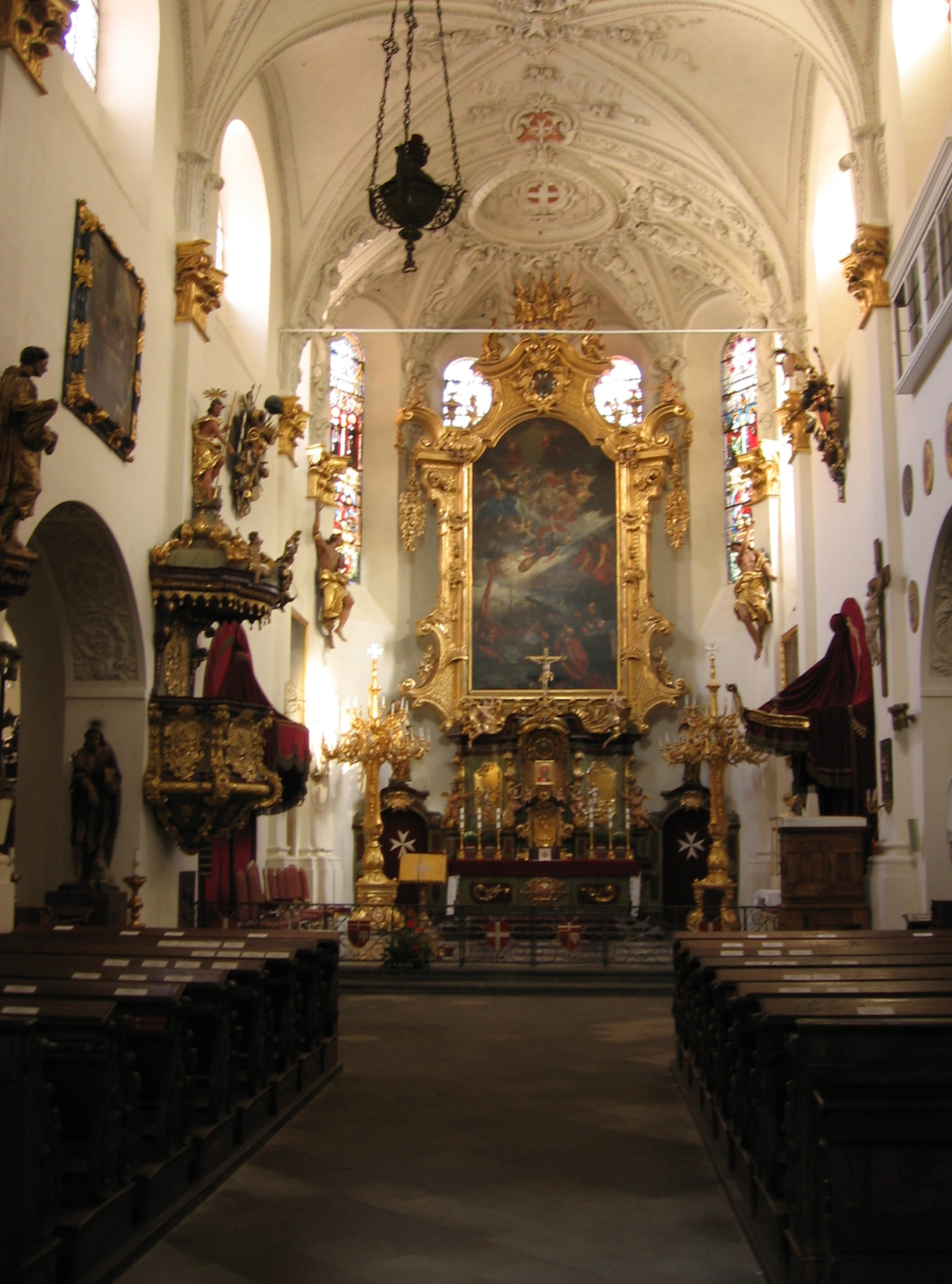 Řádový kostel Panny Marie pod řetězem, Prague, Czech Republic